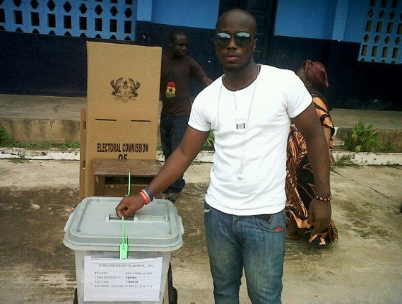 Ghanaians cast their vote on 7 December 2012 in the general elections